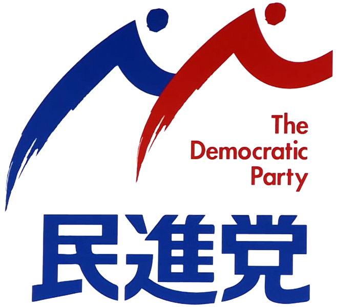 Logo of the Democratic Party.